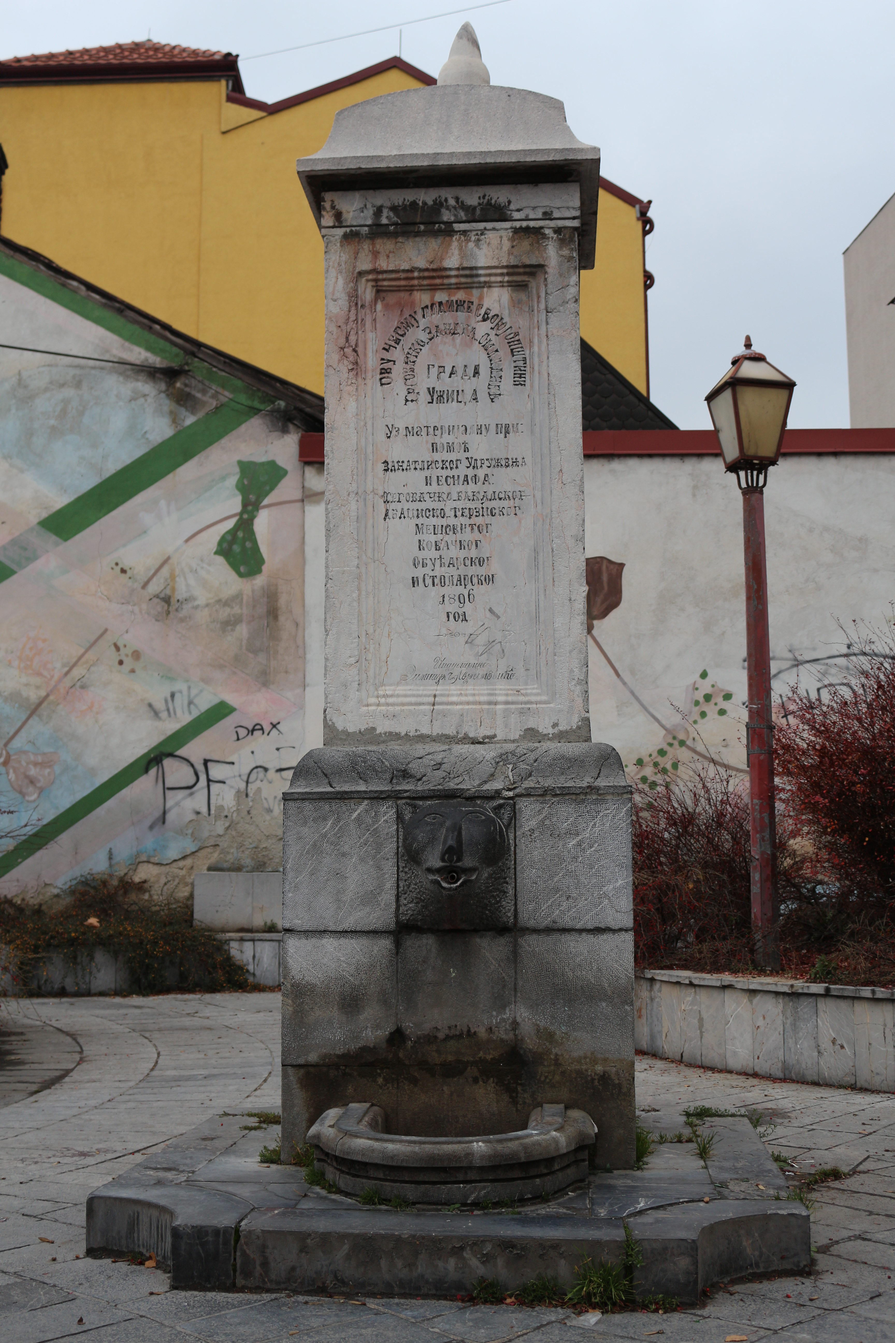 Česma Trgovačko-zanatlijskog esnafa